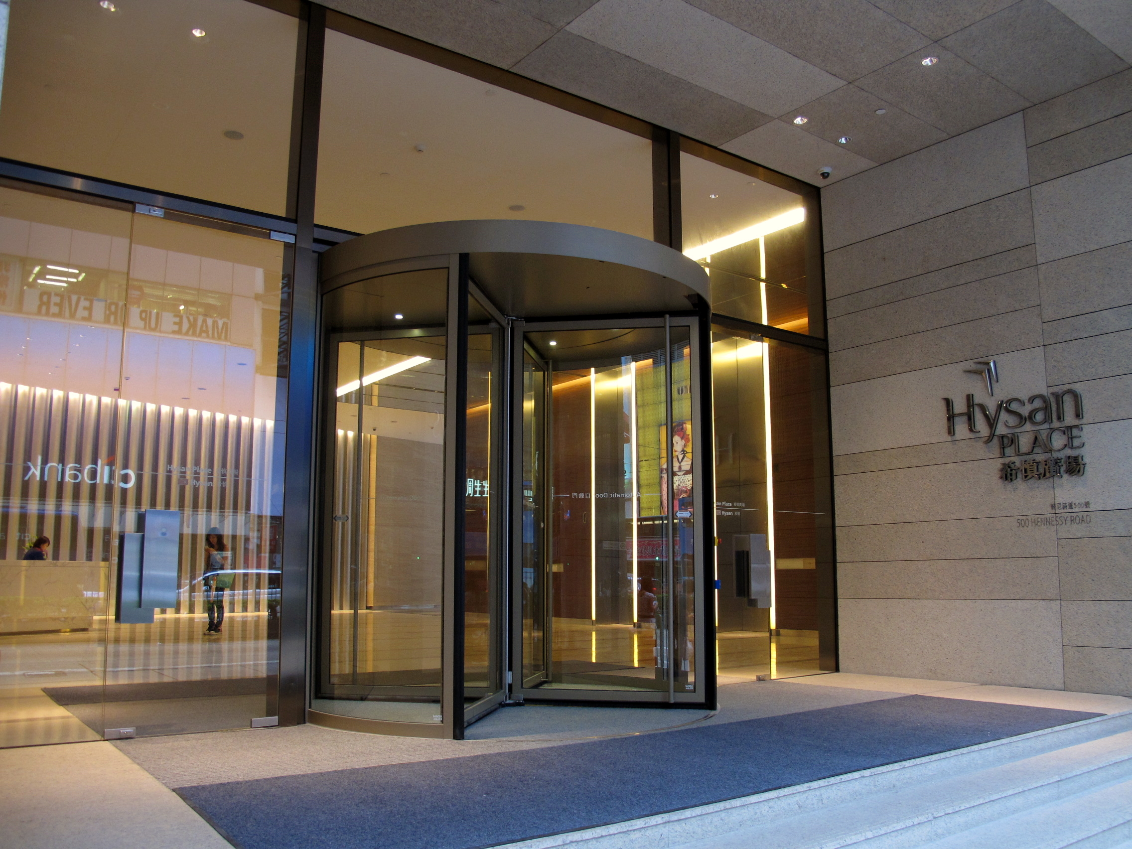 Hysan Place GF Office Entrance